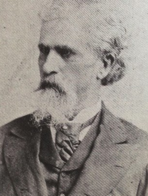 William Clark Falkner (July 6, 1825 or 1826 – November 6, 1889) was a soldier, lawyer, politician, businessman, and author in northern Mississippi. He is most notable for the influence he had on the work of his great-grandson, author William Faulkner.